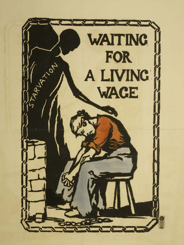 "Waiting for a Living Wage", poster, produced by the Suffrage Atelier and designed by Catherine Courtauld in 1913. The poster depicts a chained working woman who is visited by starvation while she waits for a living wage.